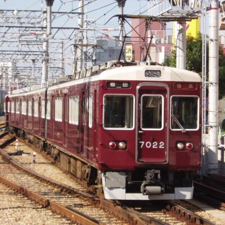 Hankyu Railway 7000series（7022F） Electric Car 阪急電鉄7000系（7022F）電車